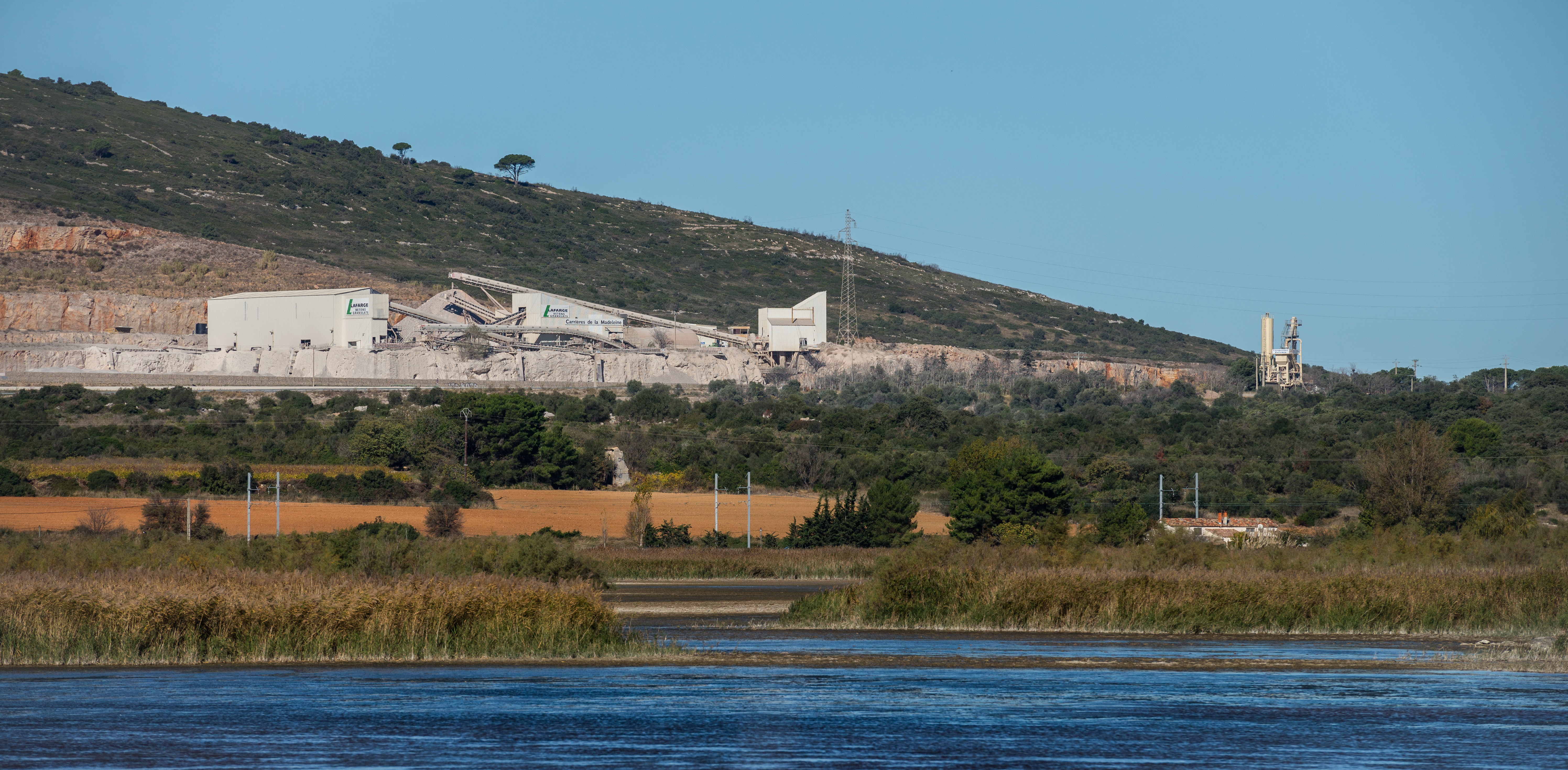 Quarry of La Madeleine. Mining of light gray limestone worked by Lafarge. Villeneuve-lès-Maguelone, Hérault, France.